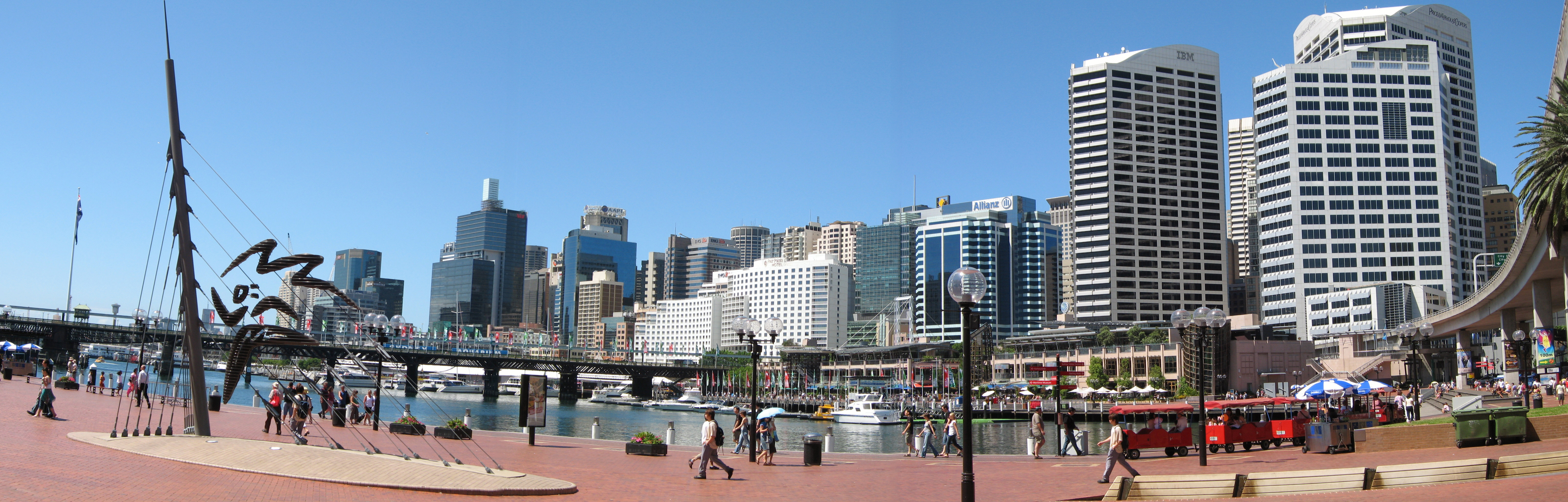 Darling Harbour, Sydney, Australia.